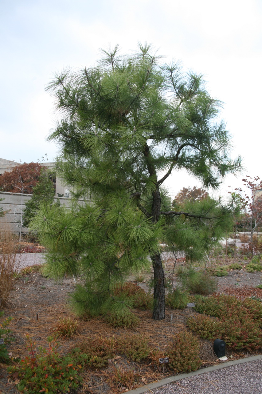 Pinus serotina, cultivated, US National Botanical Garden, Washington DC